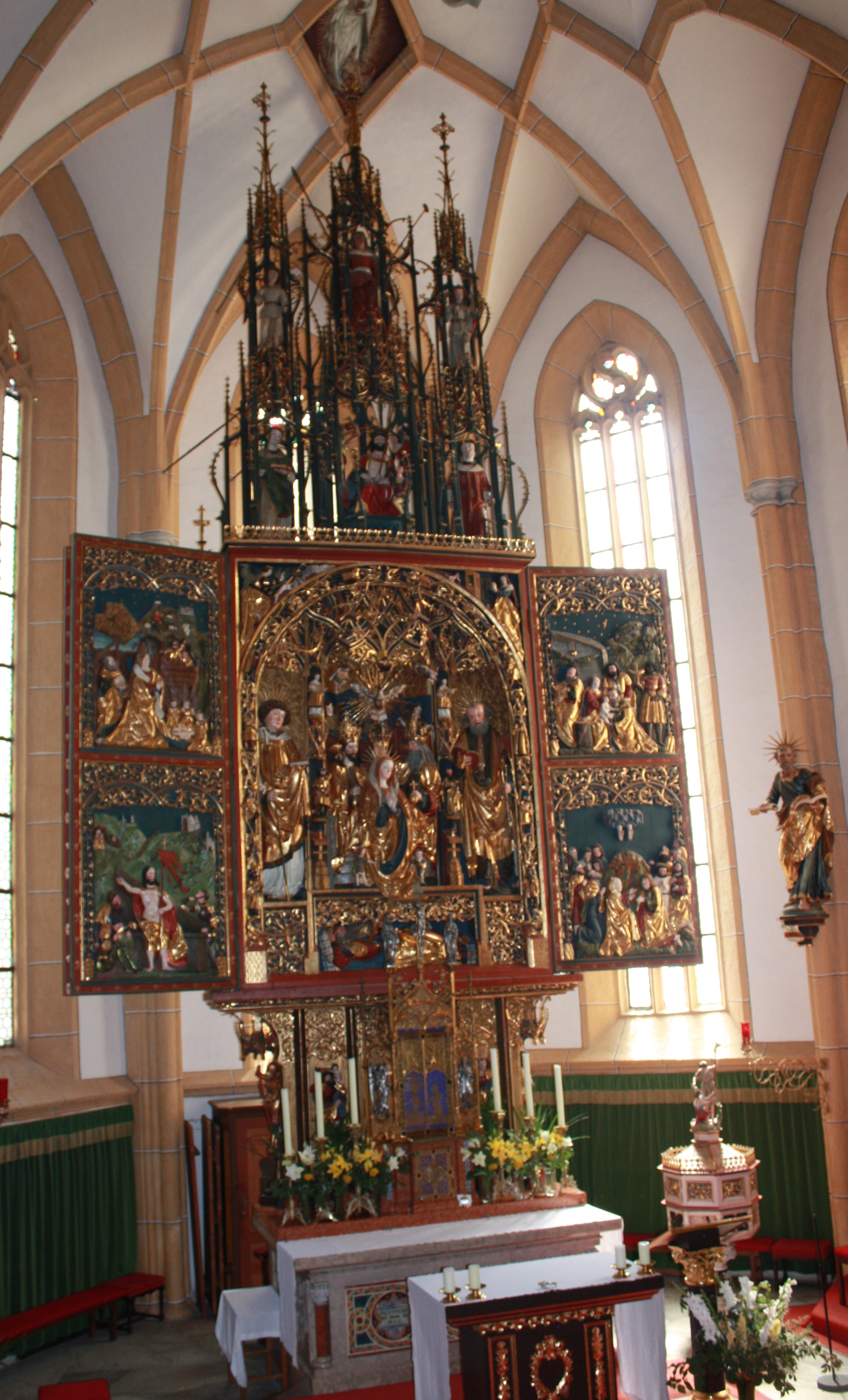 Parish church Saint Vinzenz - Main altar Locality: Heiligenblut Community:Heiligenblut